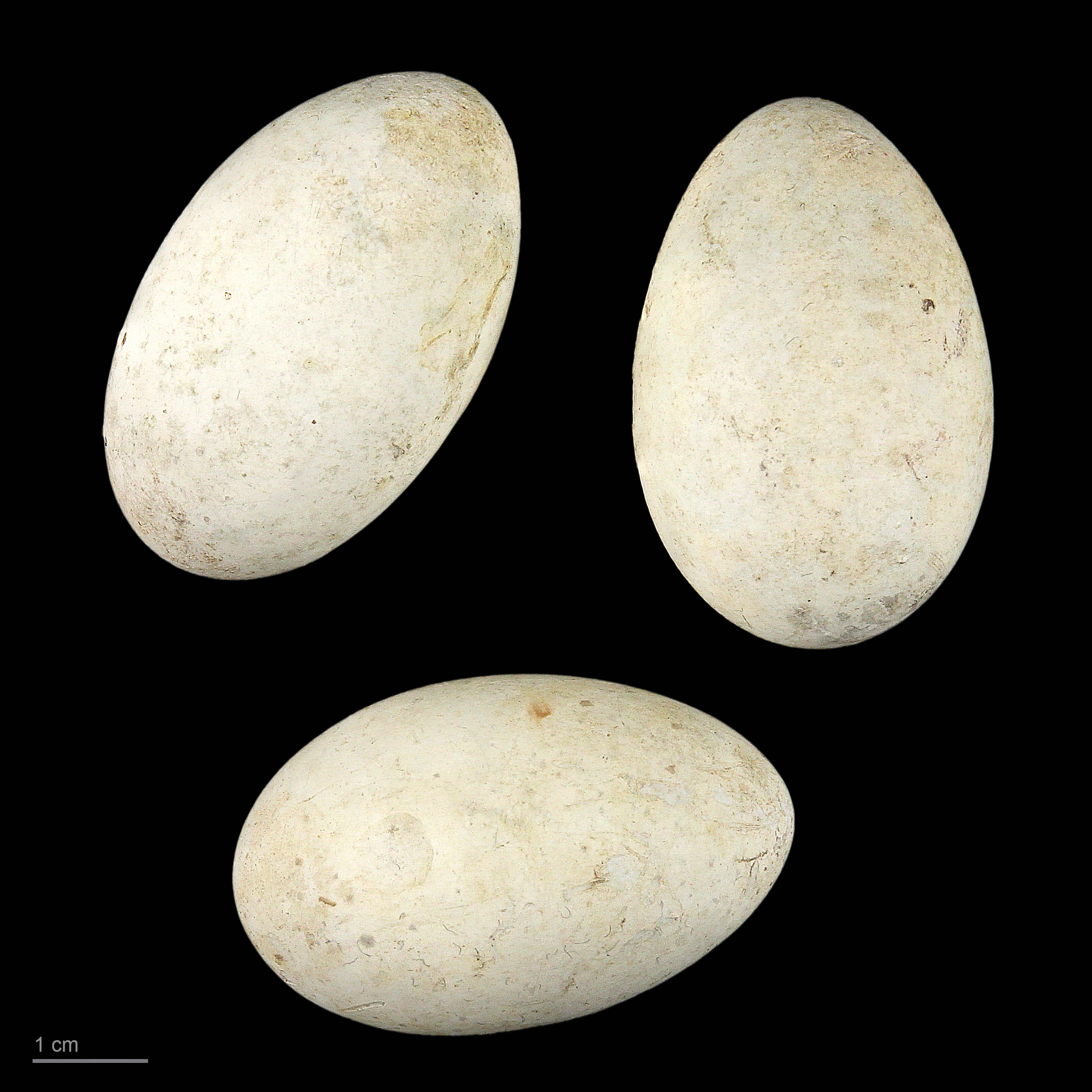 Eggs of pygmy cormorant Three specimens of the same spawn ; collection of Jacques Perrin de Brichambaut.